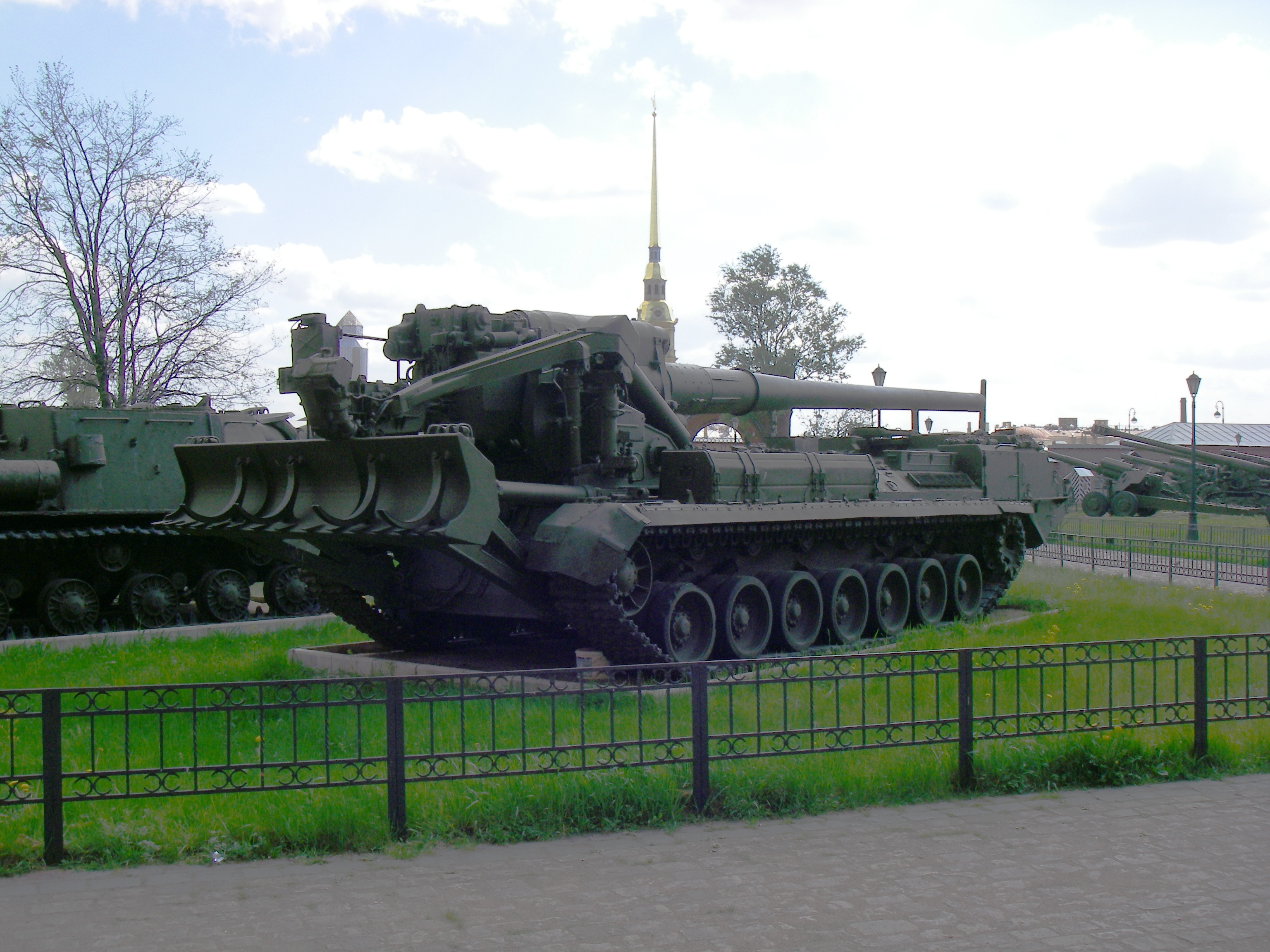 203-mm self-propelled gun 2S7 «Pion» (rear view) in Saint-Petersburg Artillery museum